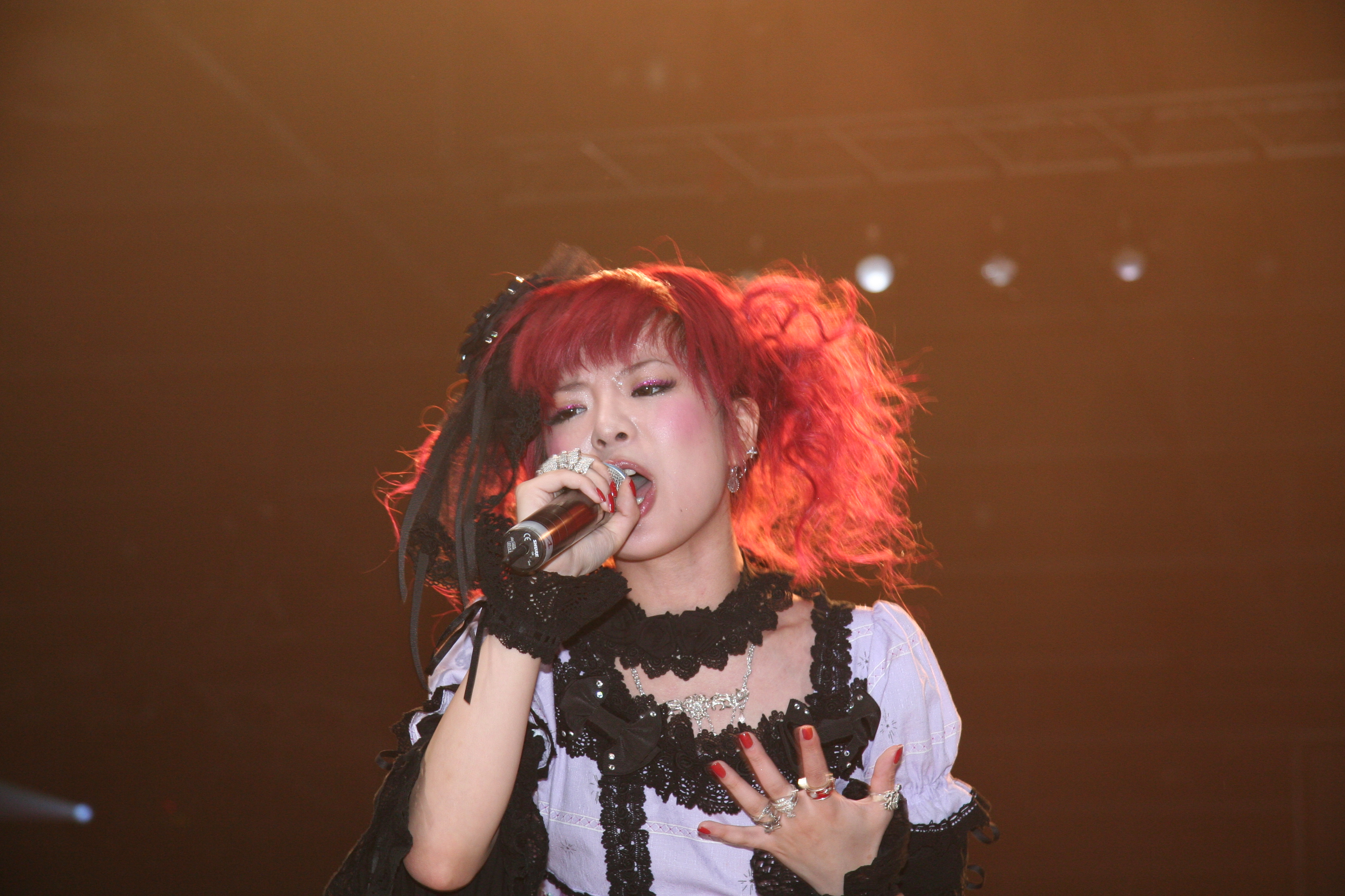 Nana Kitade live at Japan Expo 2007 (Paris, France).